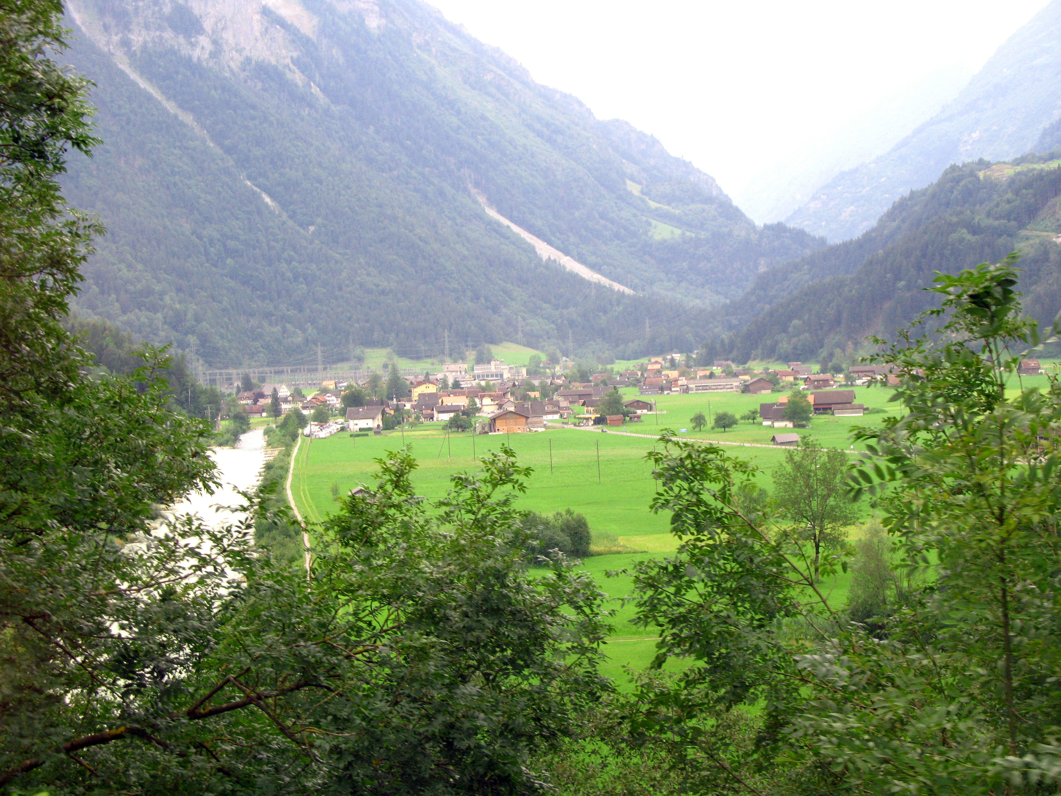 Innertkirchen, Switzerland